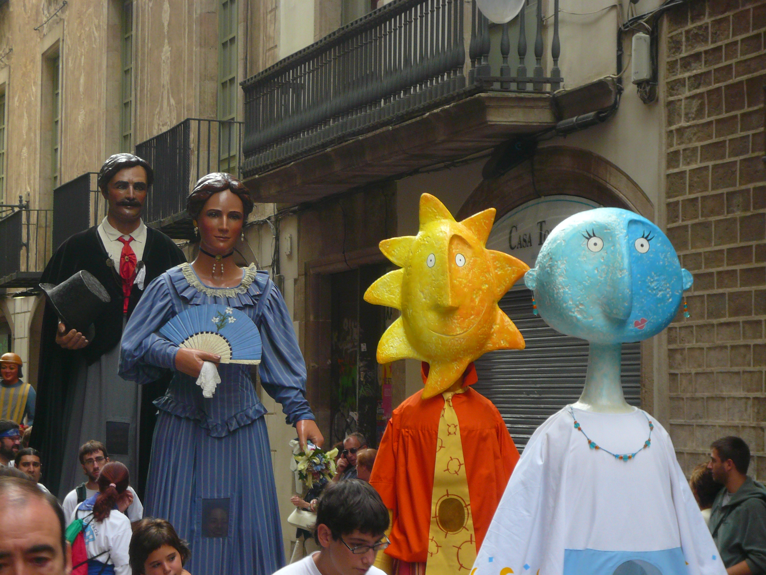 Gegants de Gràcia in Barcelona